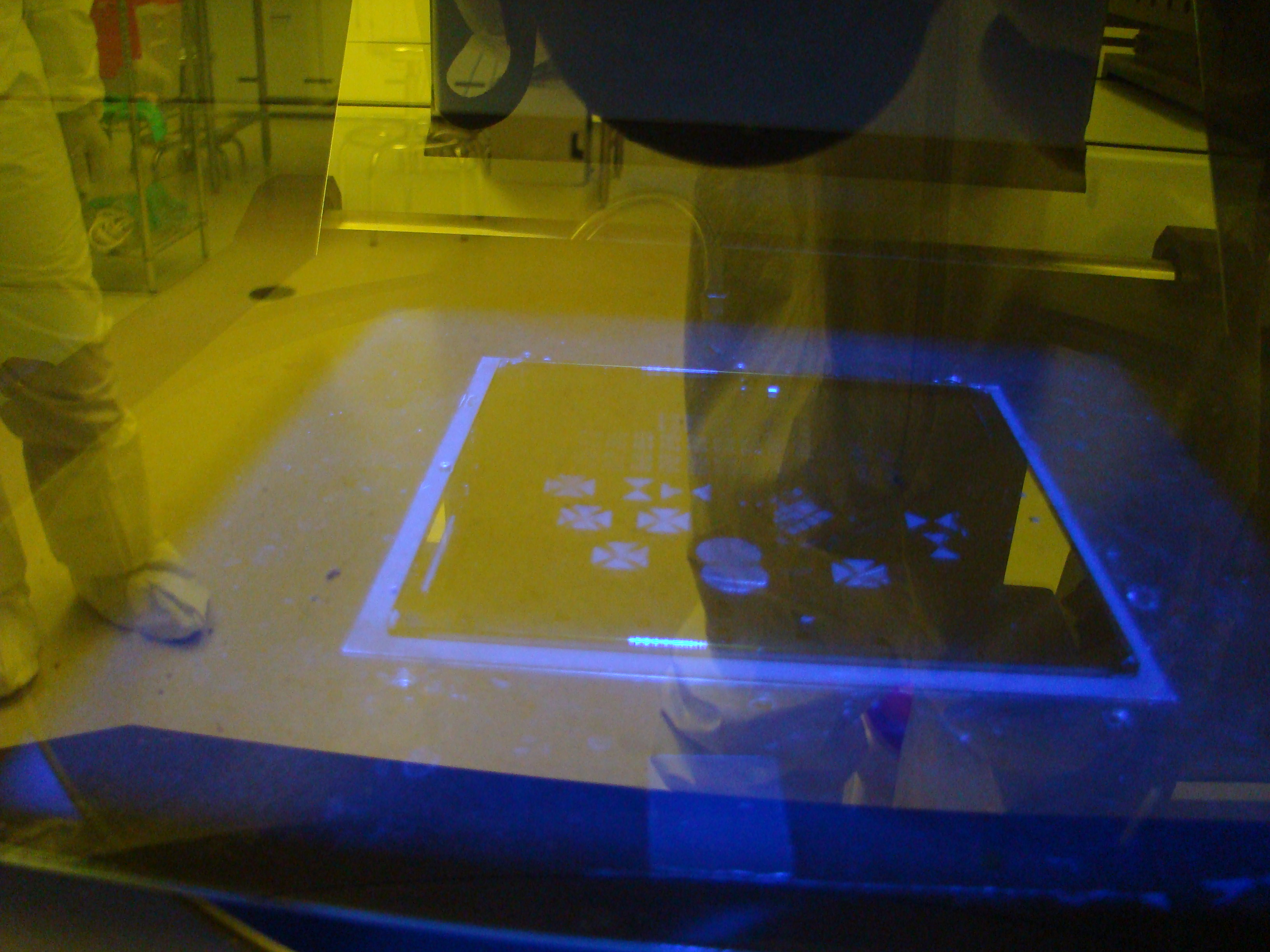 An experiment running- UAH